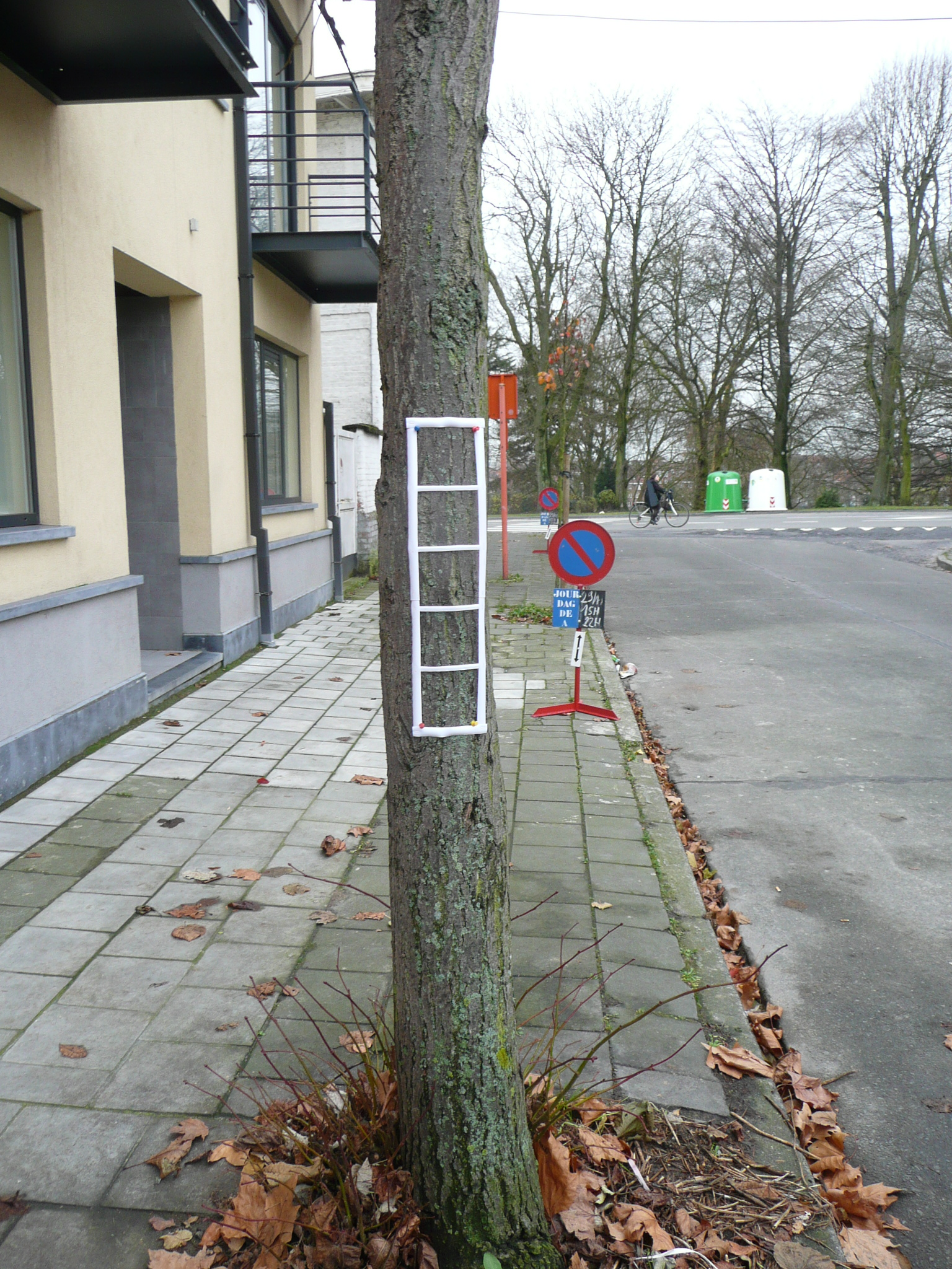 Device for carrying out surveys on lichens (assessment of air quality)